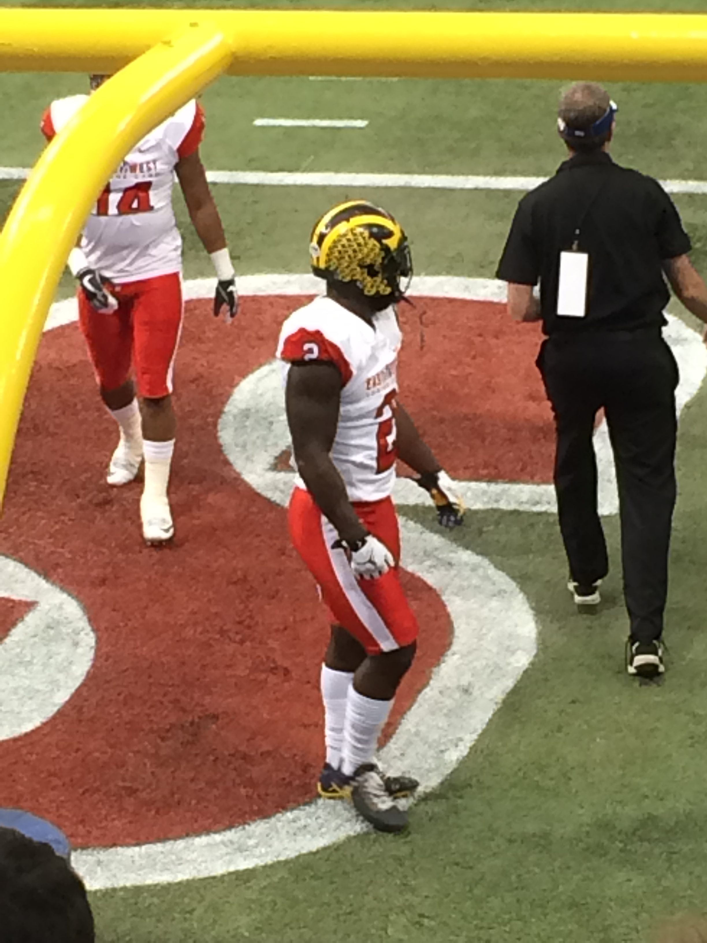 De'Veon Smith at the 2017 East-West Shrine Game